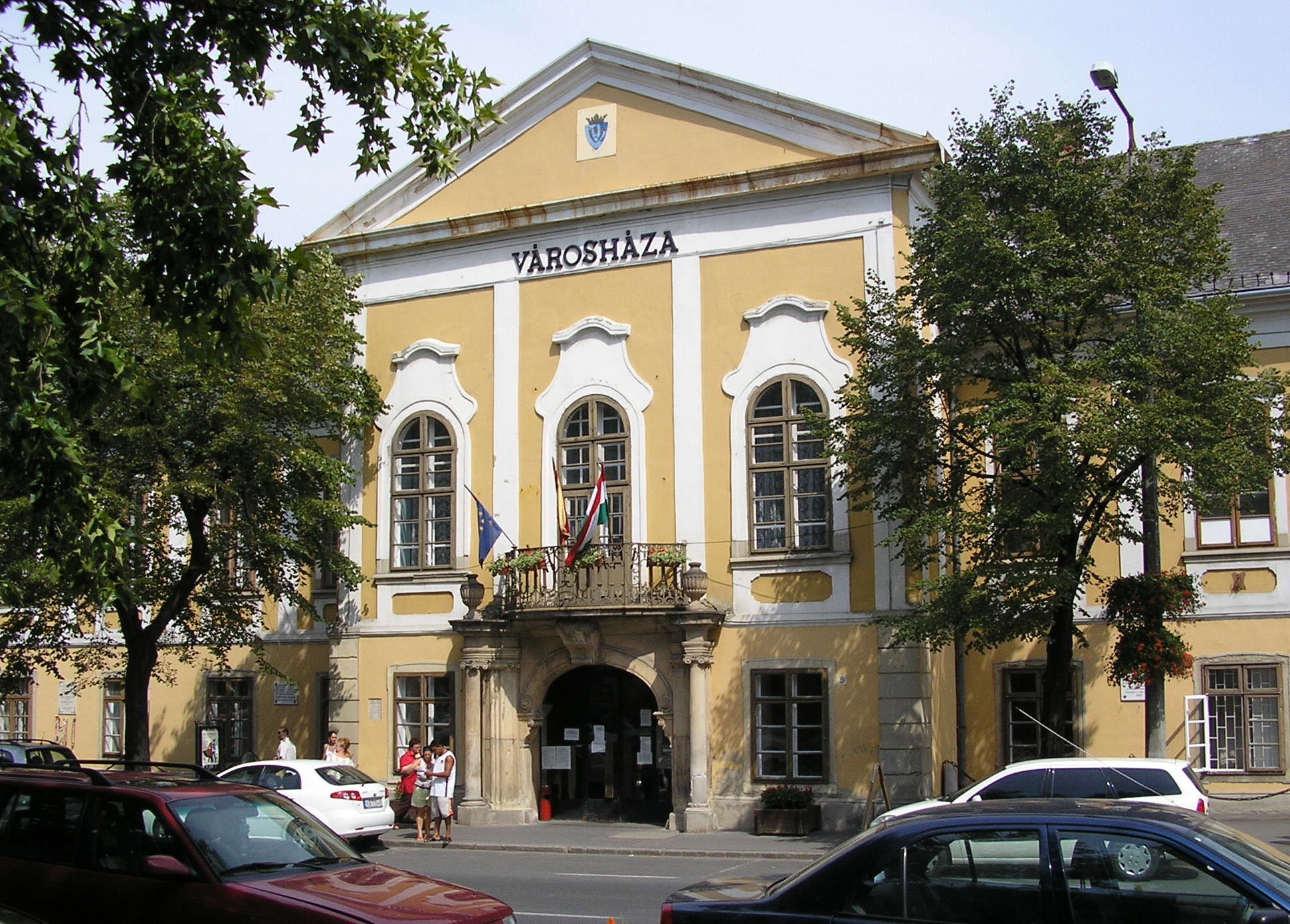 The town hall of Sátoraljaújhely (Hungary)